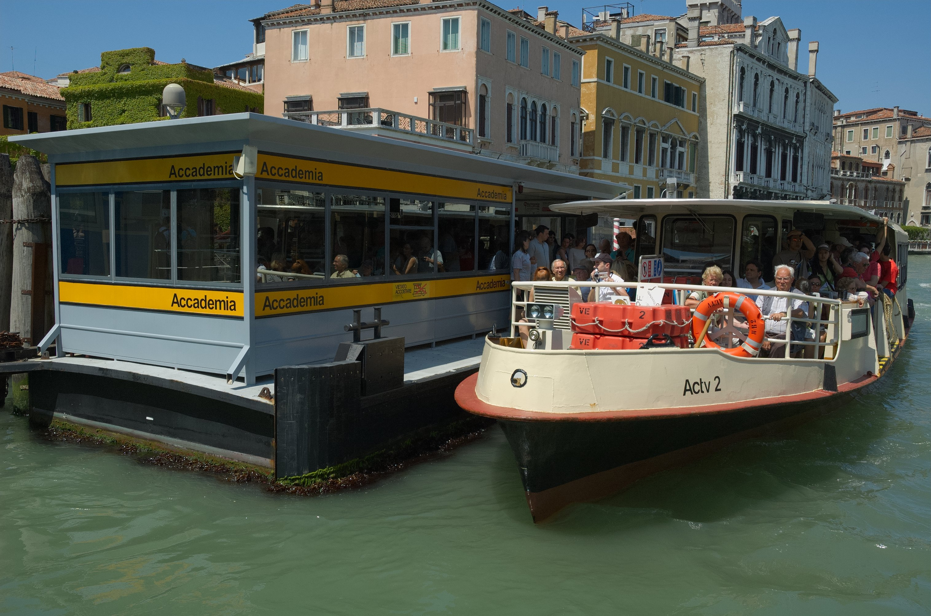 A vaporetto at the Accademia vaporetto stop on the Canal Grande, Venice.